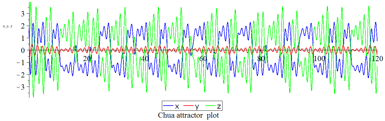 Chua attractor Maple plots